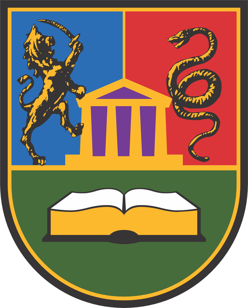 Coat of arms of University of Kragujevac